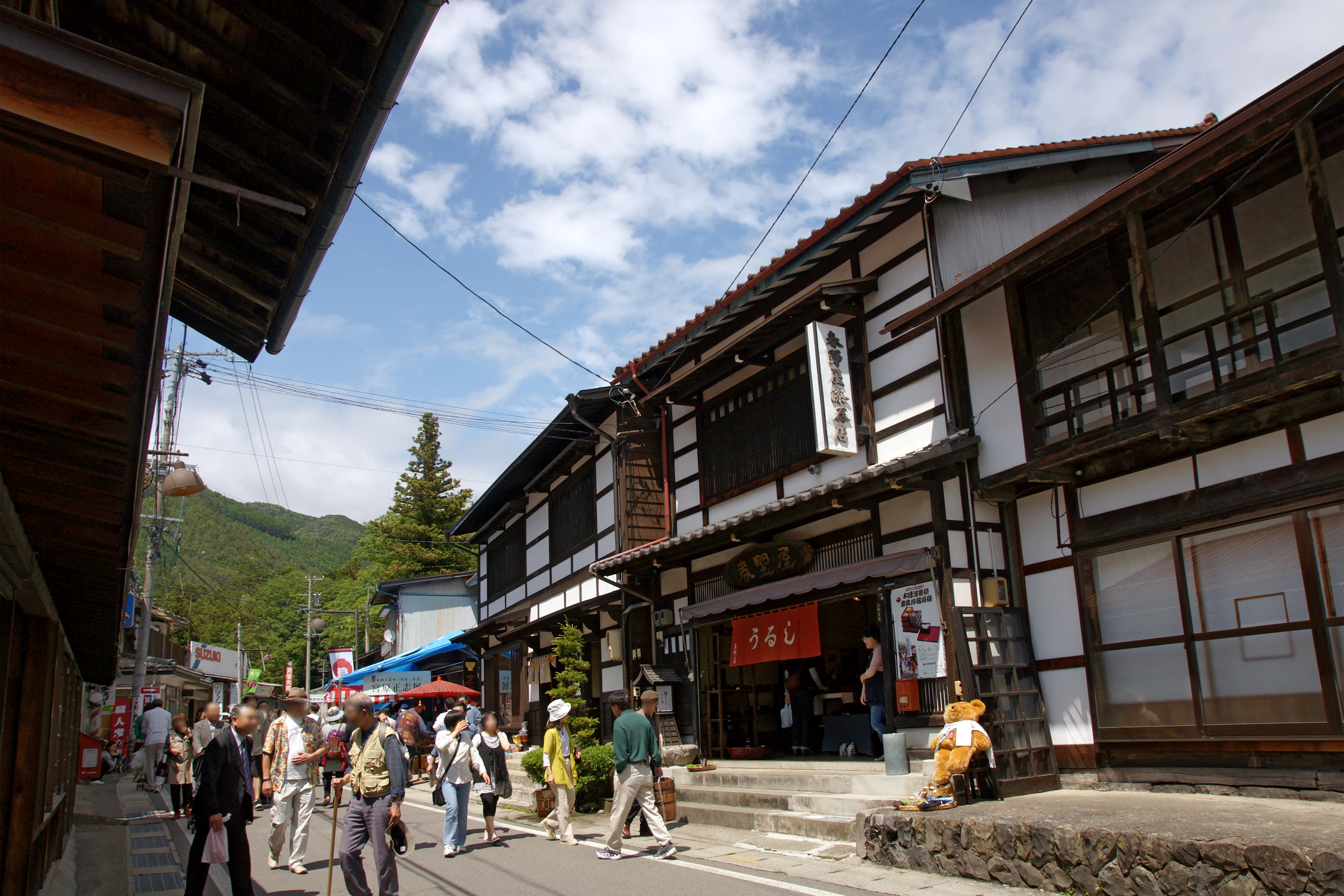 Kiso-Hirasawa, Shiojiri, Nagano prefecture, Japan